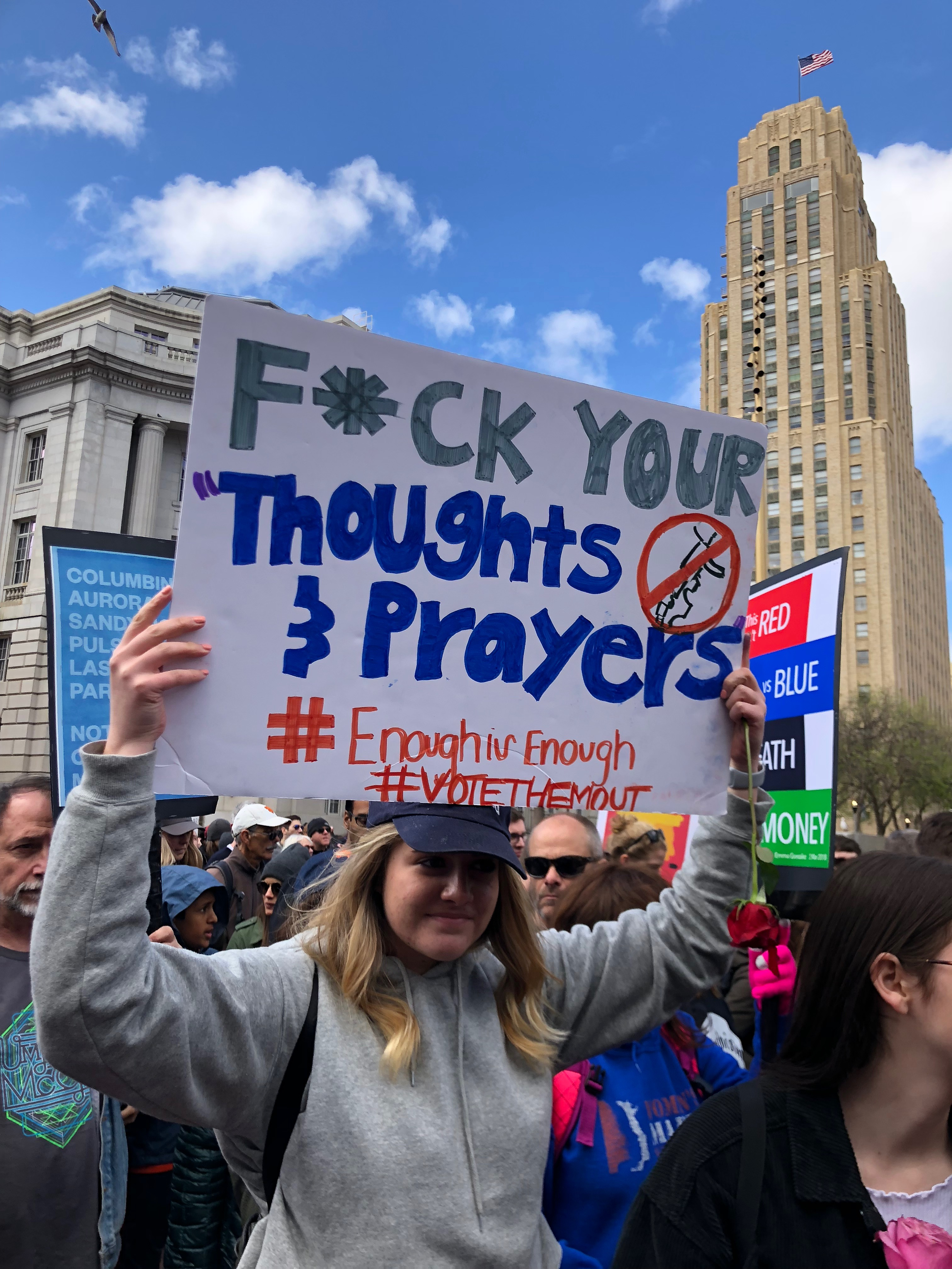 March For Our Lives San Francisco 3/24/2018